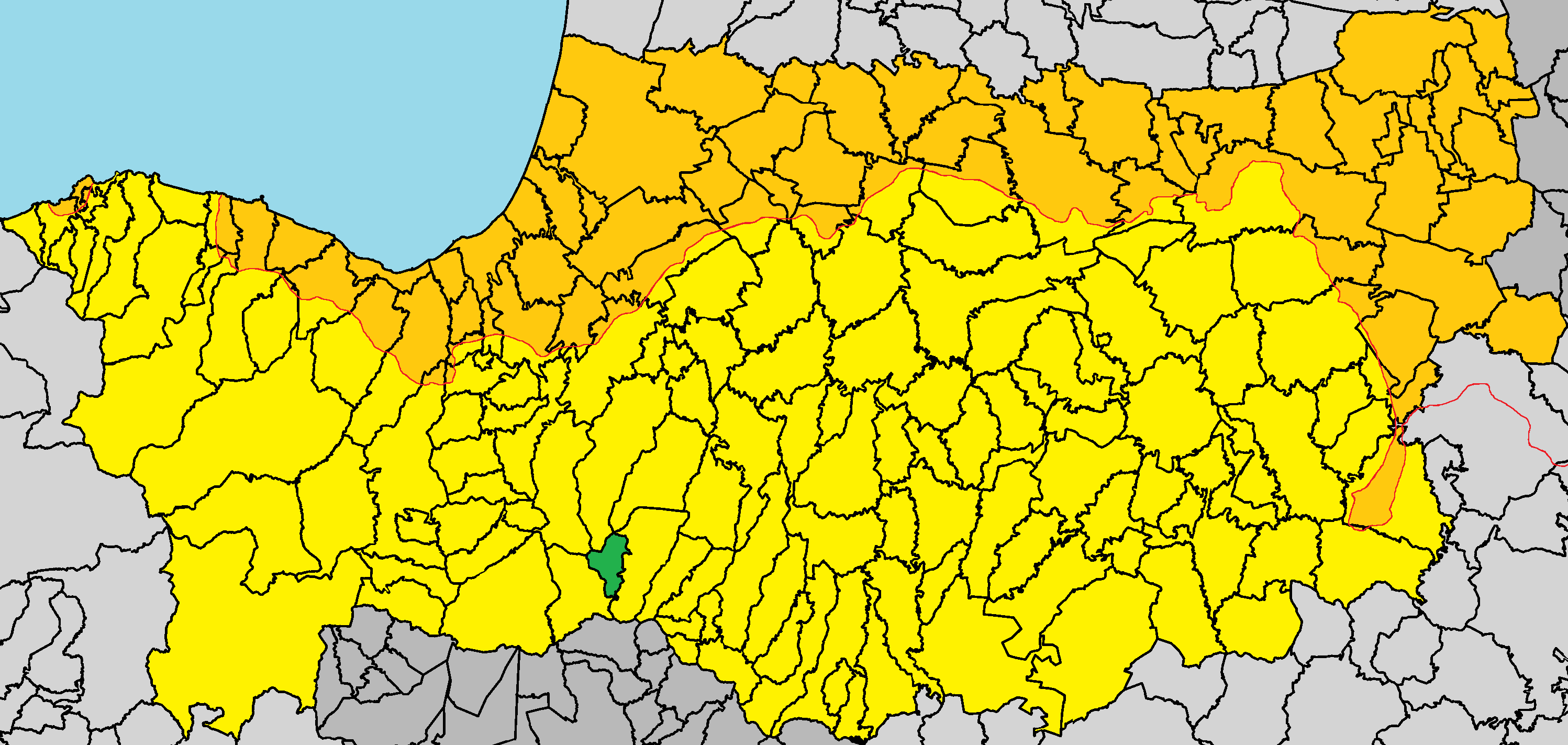 Agia Eirini in Nicosia District.